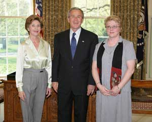 Nancy Schick, New Mexico’s State Teacher of the Year, being honored in a ceremony with President Bush and First Lady Laura Bush at the White House